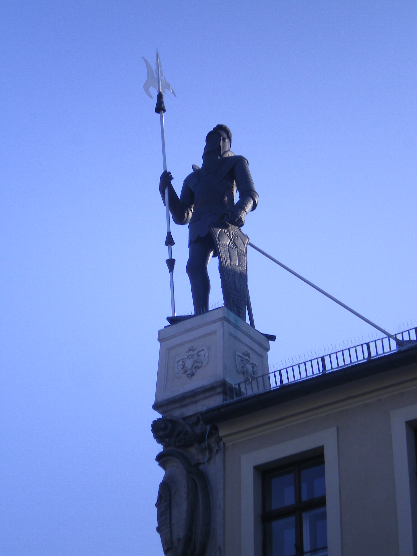 Roland statue in Crimmitschau near Zwickau/Saxony